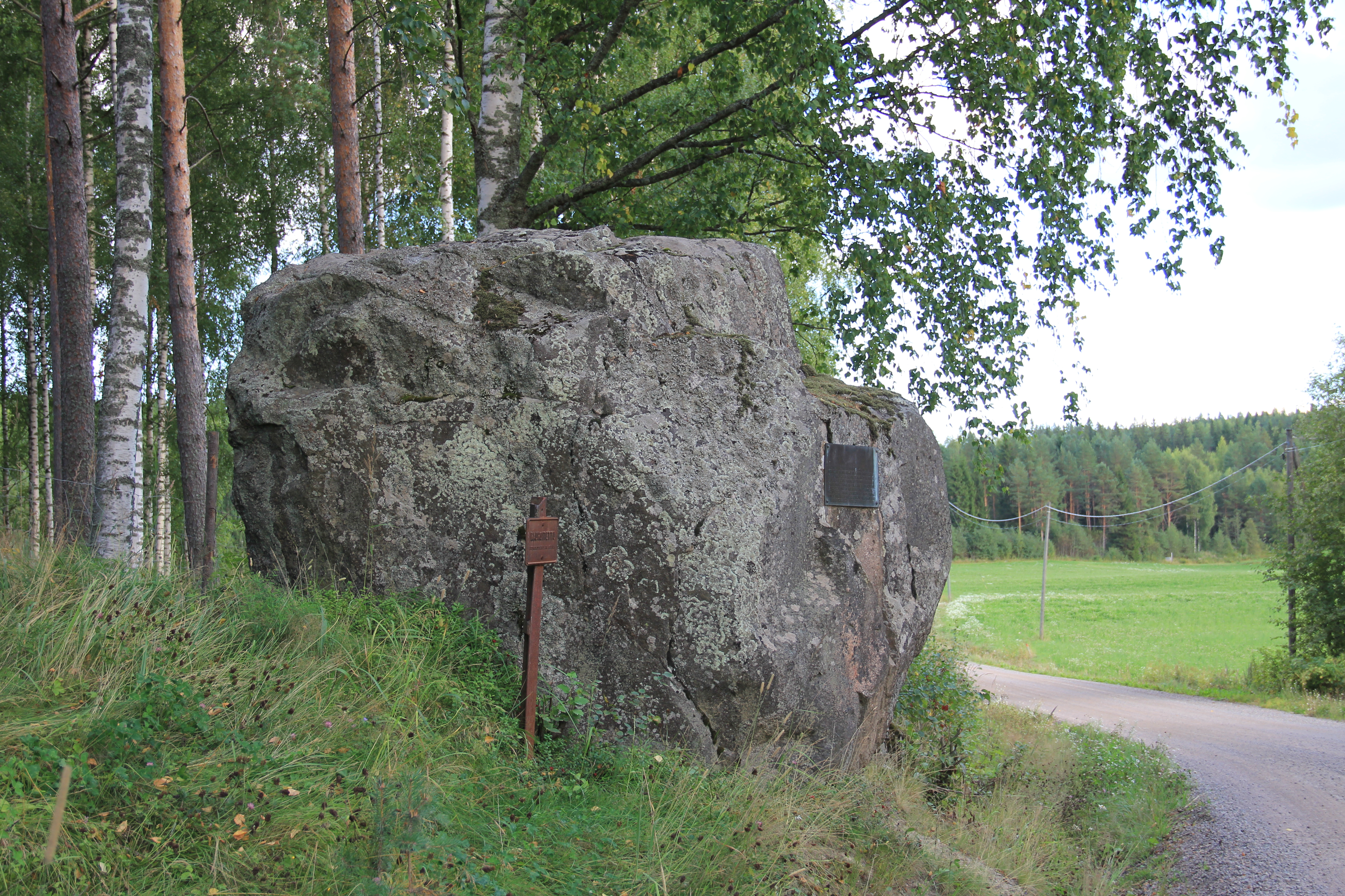 Venäläiskivi ("Russians's stone"), Koivistonkylä, Äänekoski, Finland. - Glacial erratic, protected by law. On the stone a memorial plaque of a battle in the Finnish War 1808-1809.